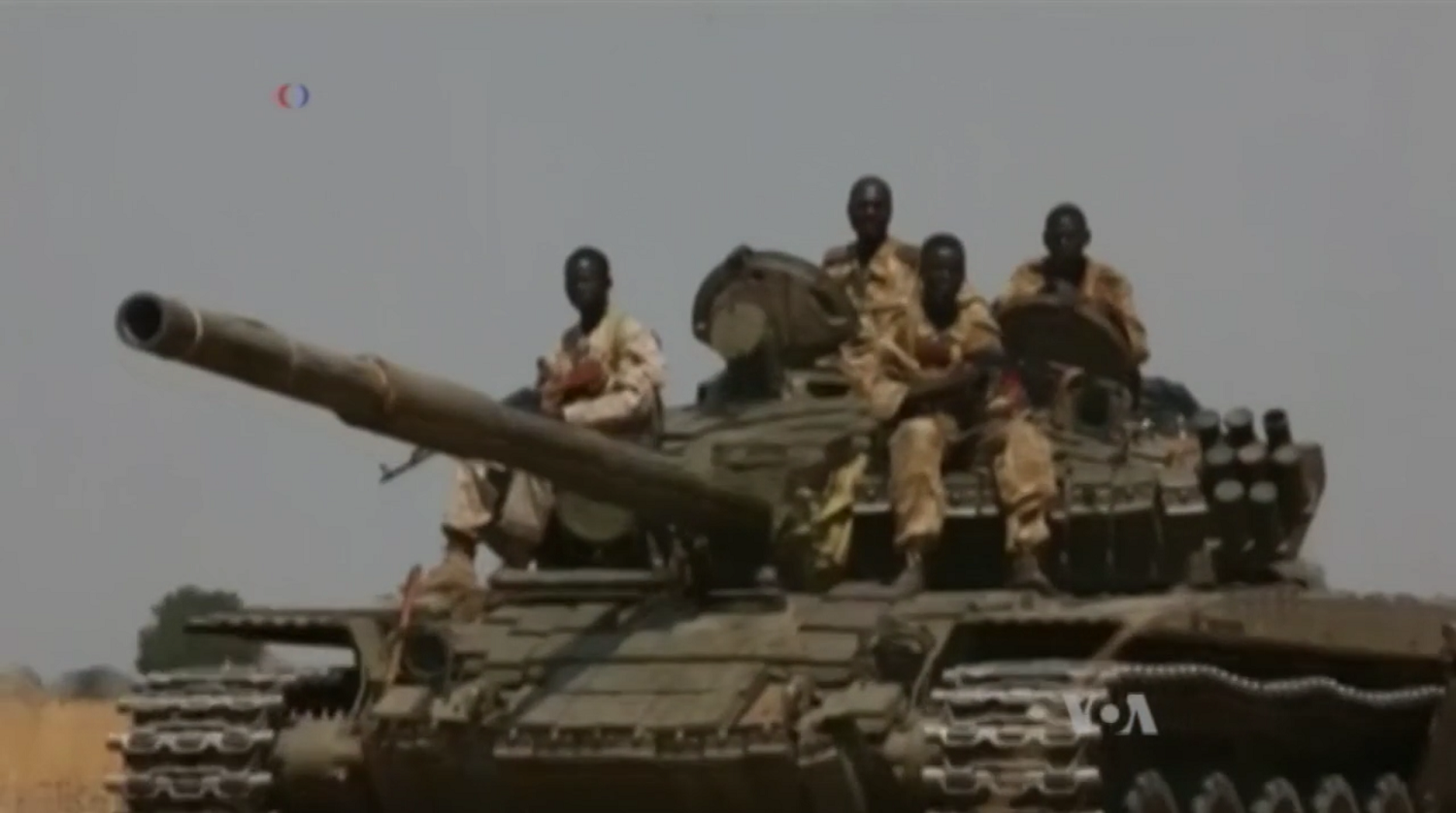 A T-72 in service of the Sudan People's Liberation Army.